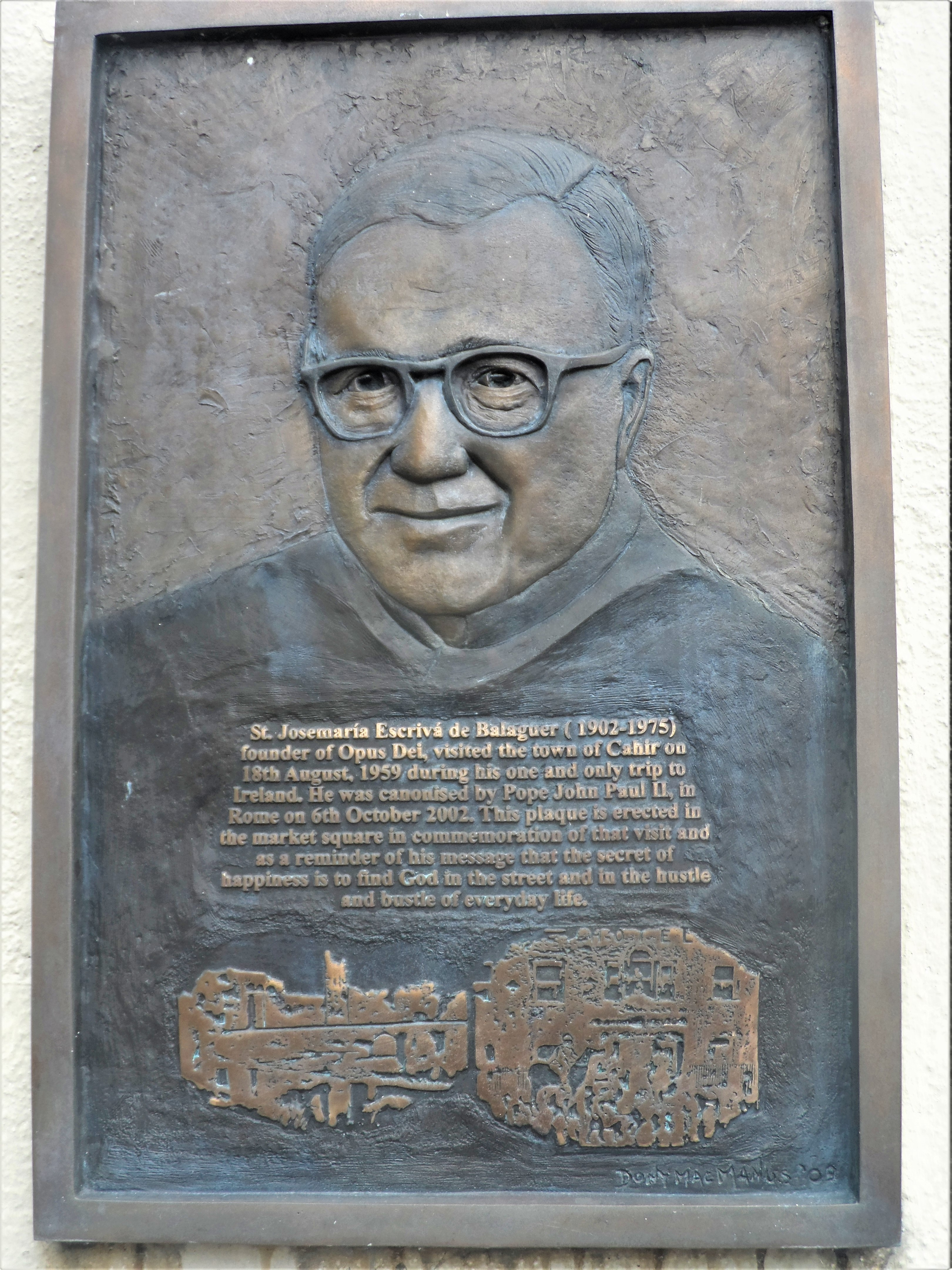 Escrivas plaque